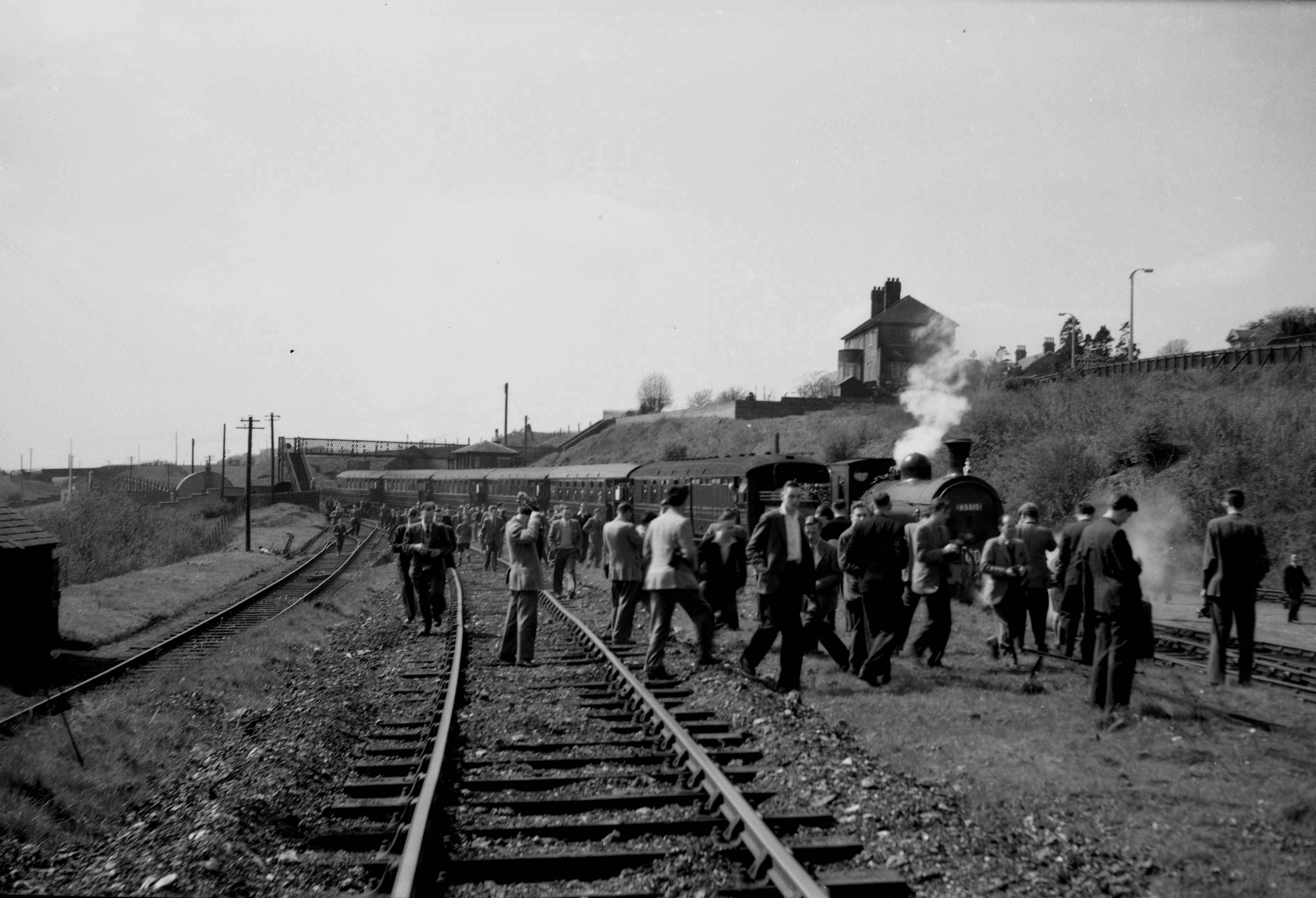 Railtour at Kilsyth in Scotland in 1958